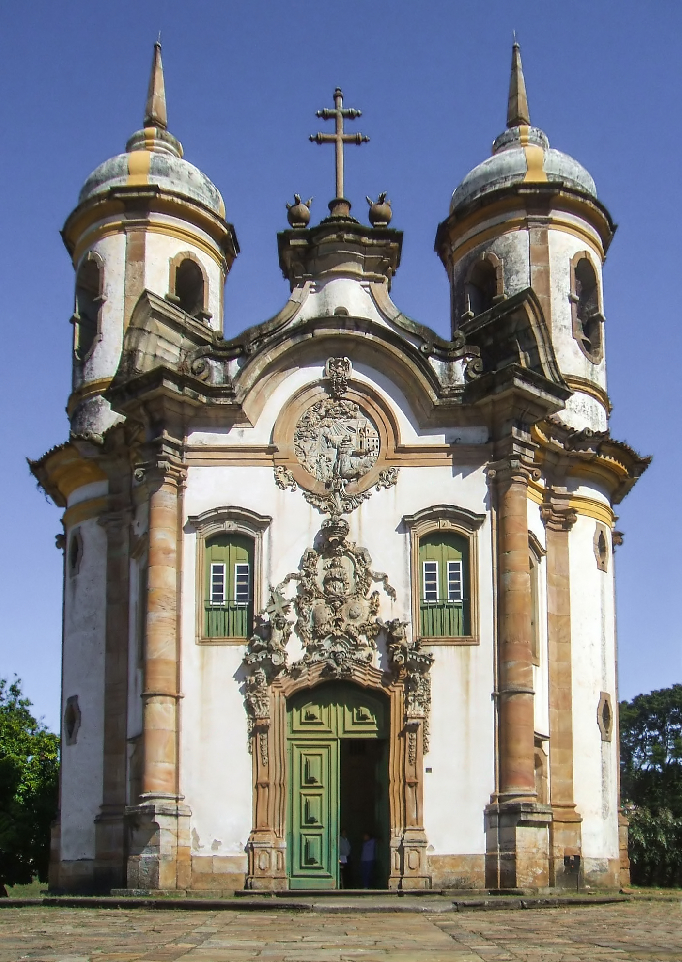 Façade of S. Francis Church in Ouro Preto, Brazil